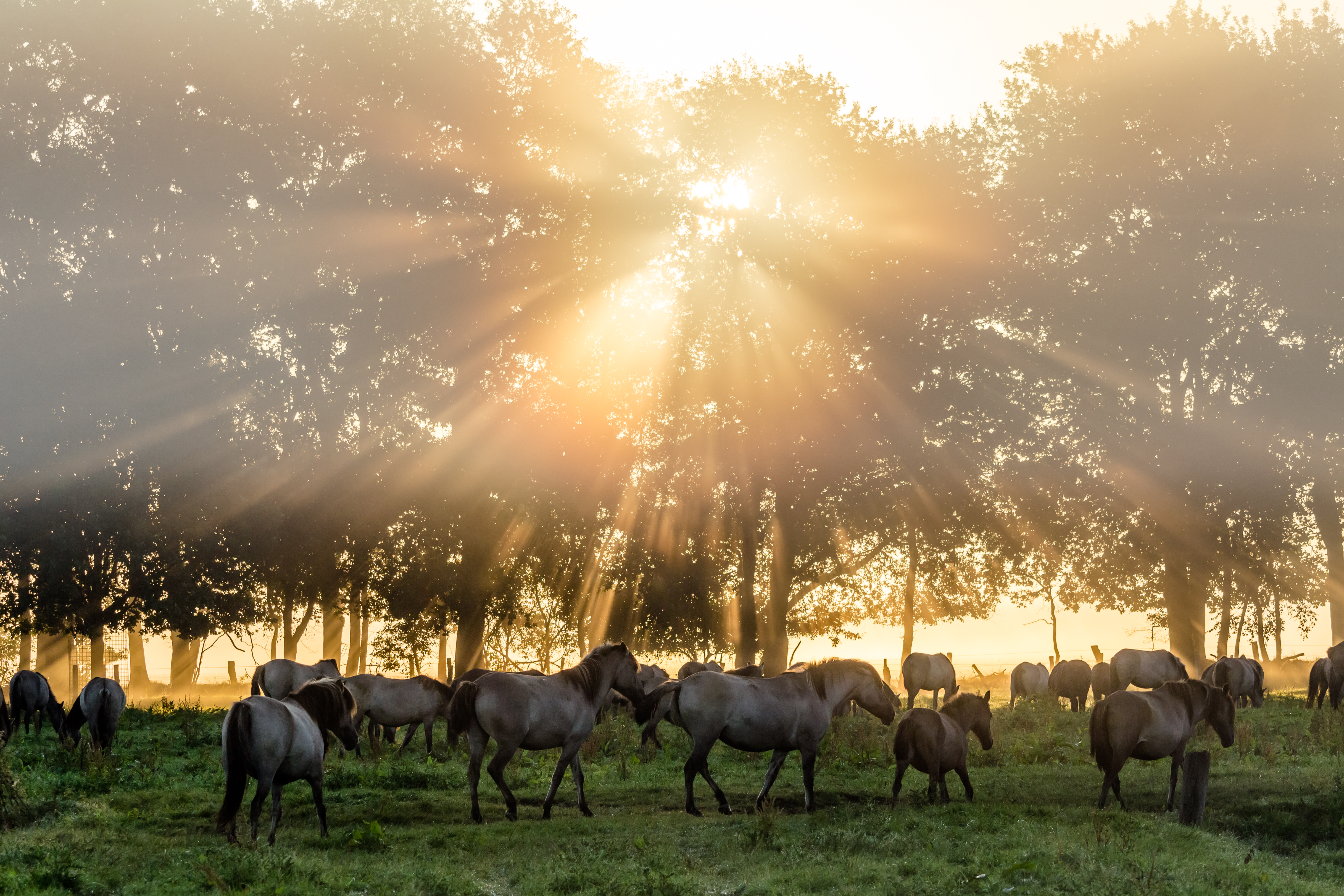 Dülmen ponies in the Wildbahn in the Merfelder Bruch (COE-004) in the morning fog at sunrise, Merfeld, Dülmen, North Rhine-Westphalia, Germany